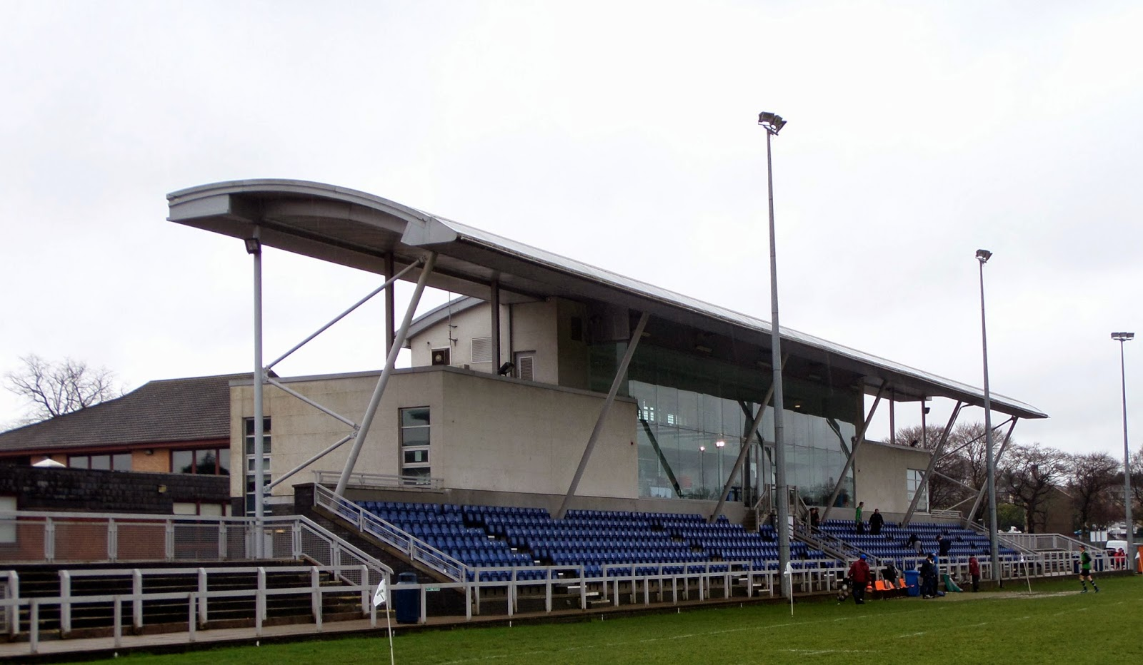 This is a rugby ground in the west end og Glasgow.